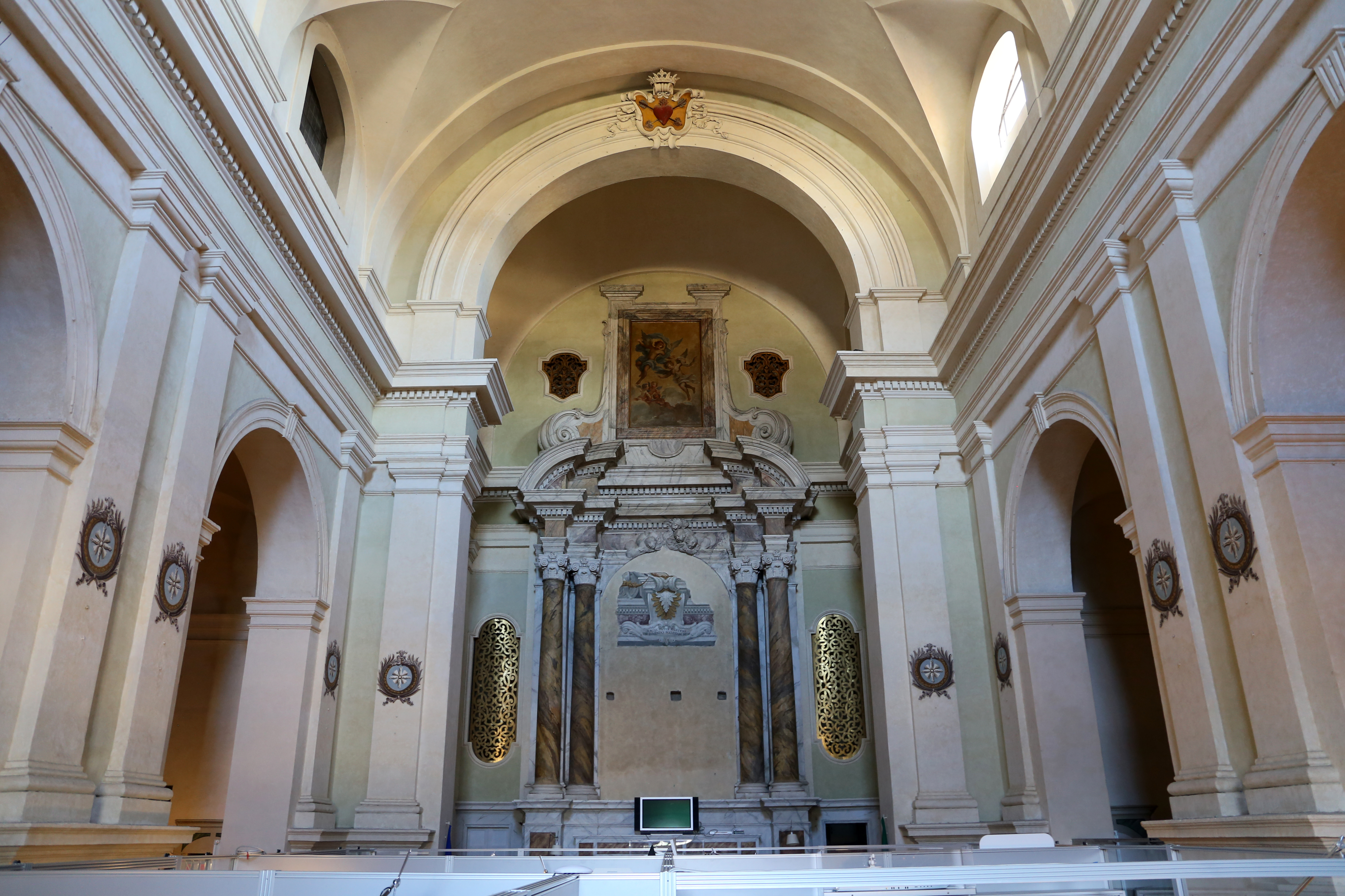 Santi Agostino e Cristina (Florence)